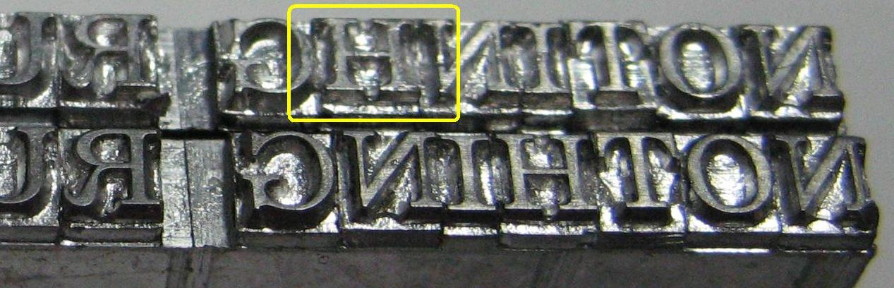 This is a photo of two lines of metal-cast characters, produced by a Linotype machine. In one of the lines, the letter H is in the wrong position in the line, which was explained to me as being due to the machine not being cleaned as often as they would like. The matrixes are lubricated with graphite powder, while the rest of the machine is lubricated with oil. Oil and graphite don't mix very well, and produce a slimy substance that slows down movement of the matrixes, causing them to arrive more slowly than other matrixes and to become assembled out of order. So while the operator did not make any mistake (and in this case the machine was being driven by a repeating loop of punched tape), the mistake was due to the slow matrix. Type lines produced from a demonstration Linotype machine operating in the Western Minnesota Stream Threshers Reunion (WMSTR) printing building in Rollag, Minnesota, USA. (This is an example of how a mistake can be an educational event. I don't feel bad about making light of this typesetting production error since the press operators are running the Linotype machine for operational demonstration purposes only, for the general public to observe and discuss, and so perfect operation for actual typesetting application is not a requirement for the demonstration. Most of these type lines get tossed back in the melting pot after demonstration casting.) - Dale Mahalko, Gilman, WI The image is upside down. Linotype slugs, like all hot metal type, were read from left to right.